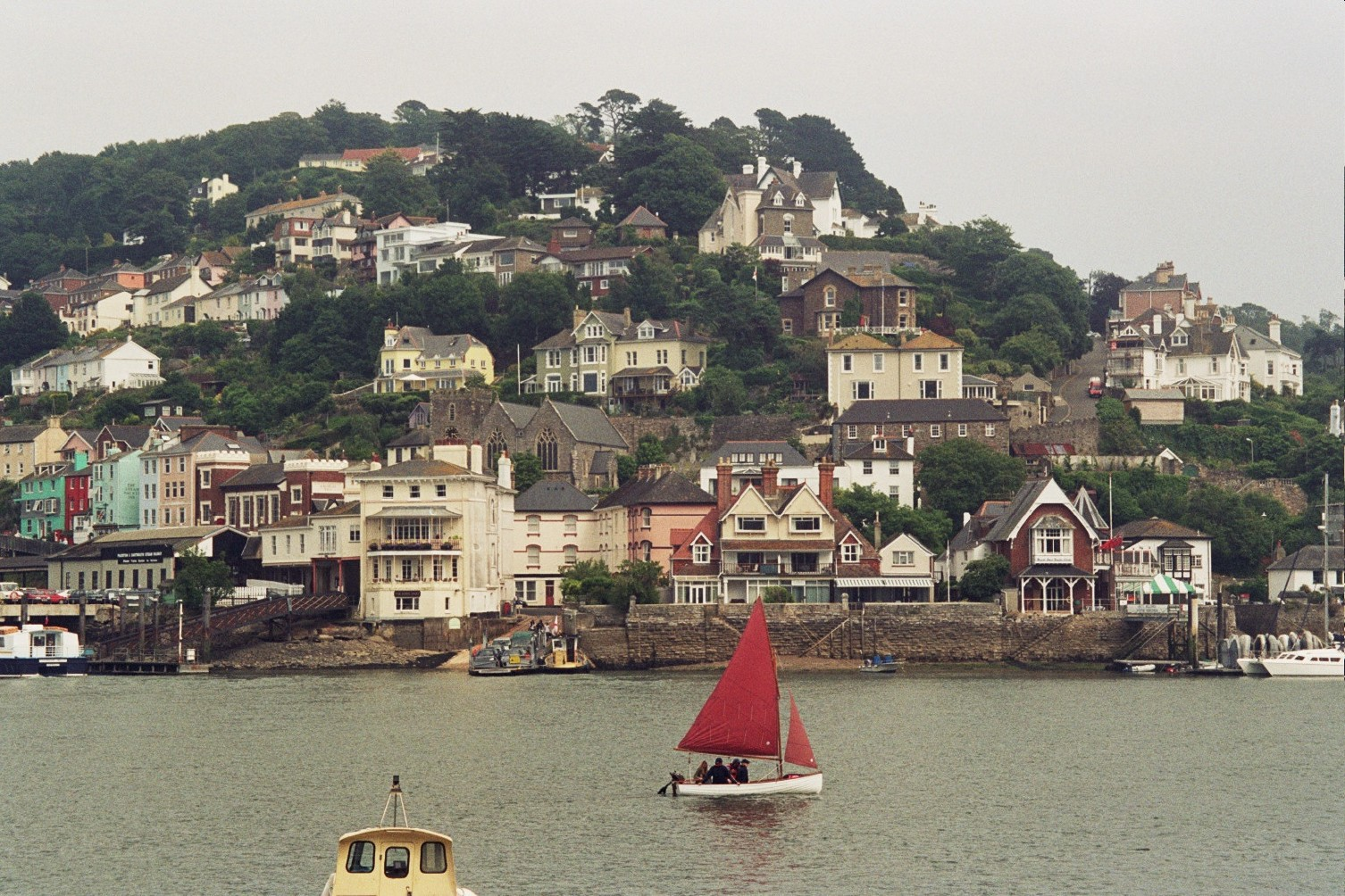 Kingswear in Devon seen from Dartmouth, England